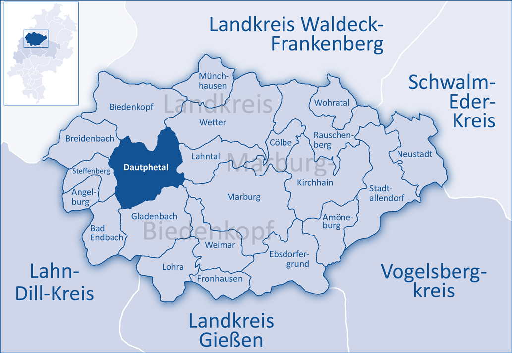 The map shows a district in the area of Marburg-Biedenkopf